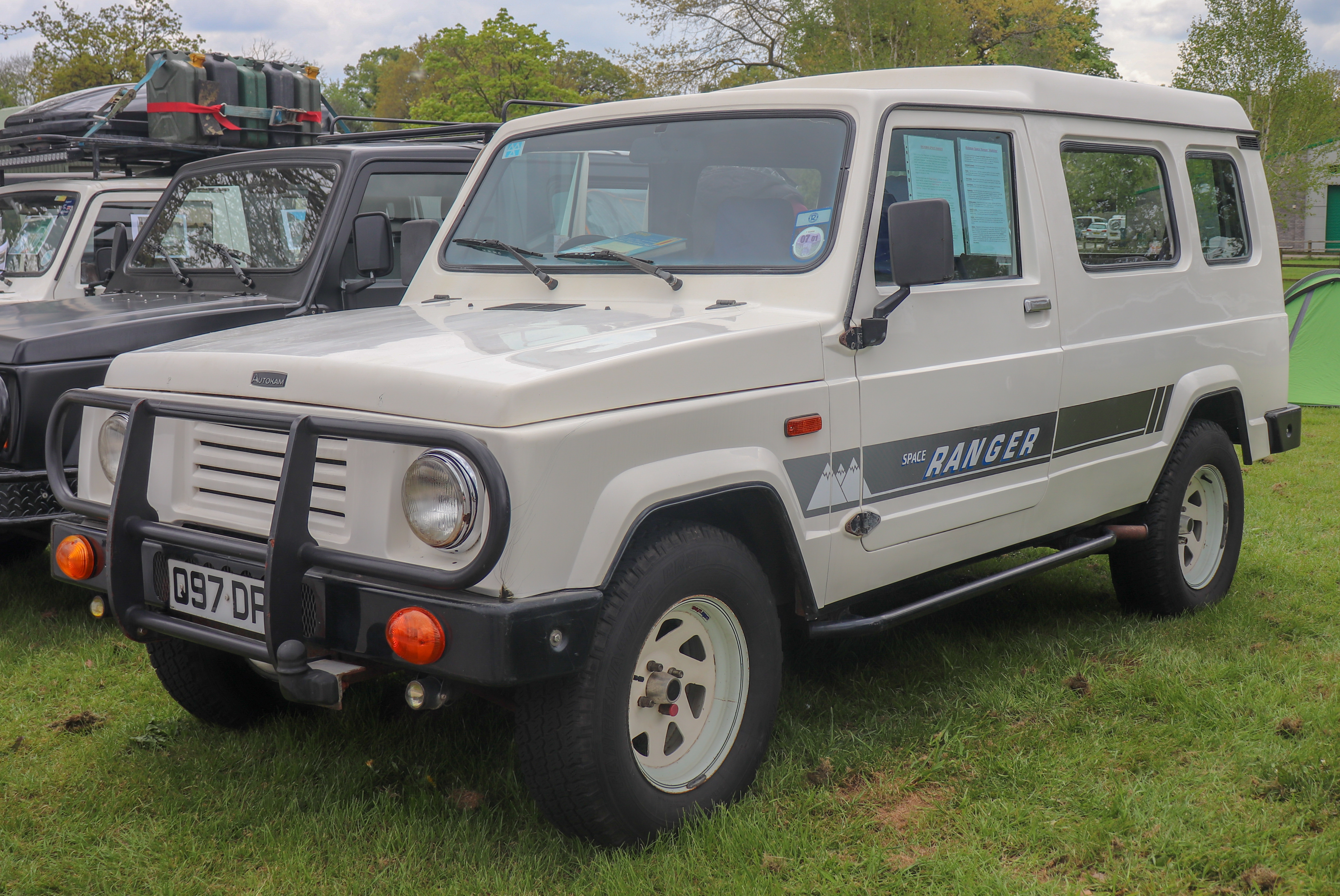 1993 Rickman Space Ranger 2.0 Front Taken at the Stoneleigh National Kit Car Motor Show 2019